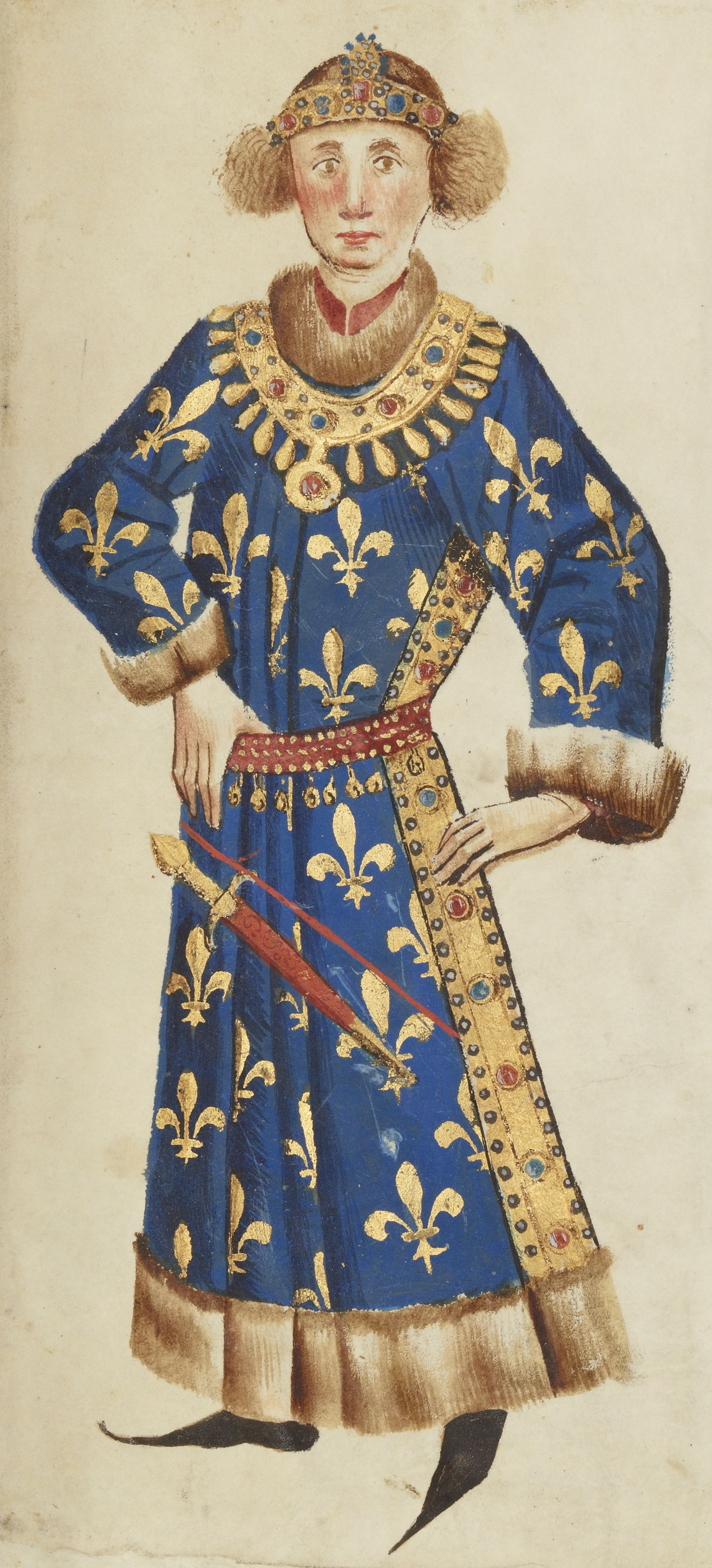 Louis II de Bourbon (BNF, Français 22297)